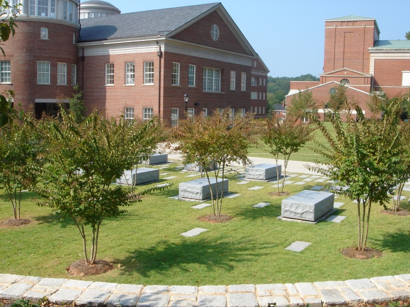 This image shows the Student Learning Center and Memorial Gardens at the University of Georgia in Athens, Georgia. This photograph was taken by User:pruddle (the uploader) in